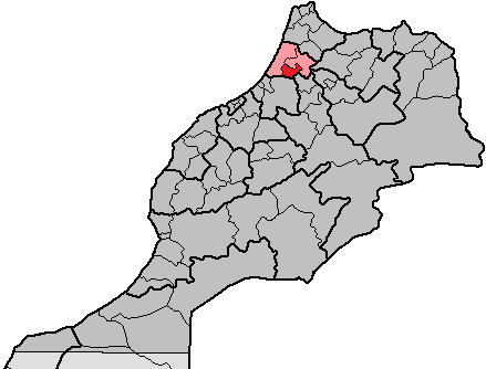 Location of the province Sidi Slimane within the region Gharb-Chrarda-Béni Hssen, Morocco. In total, Morocco has 16 regions, subdivided into 62 provinces and 13 prefectures.